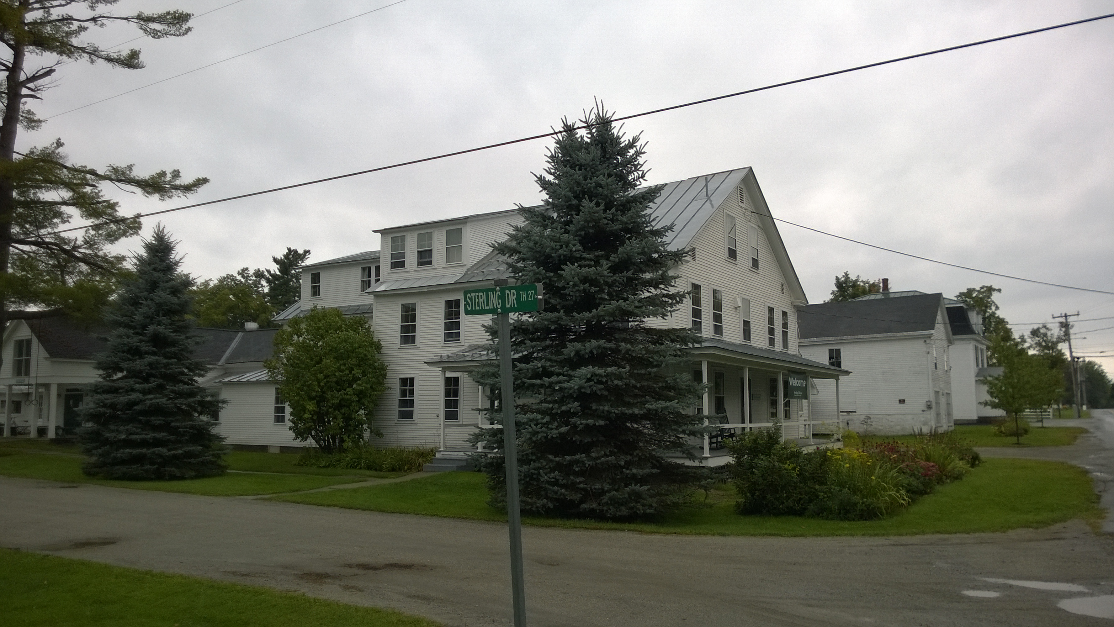 Buildings near Craftsbury Common